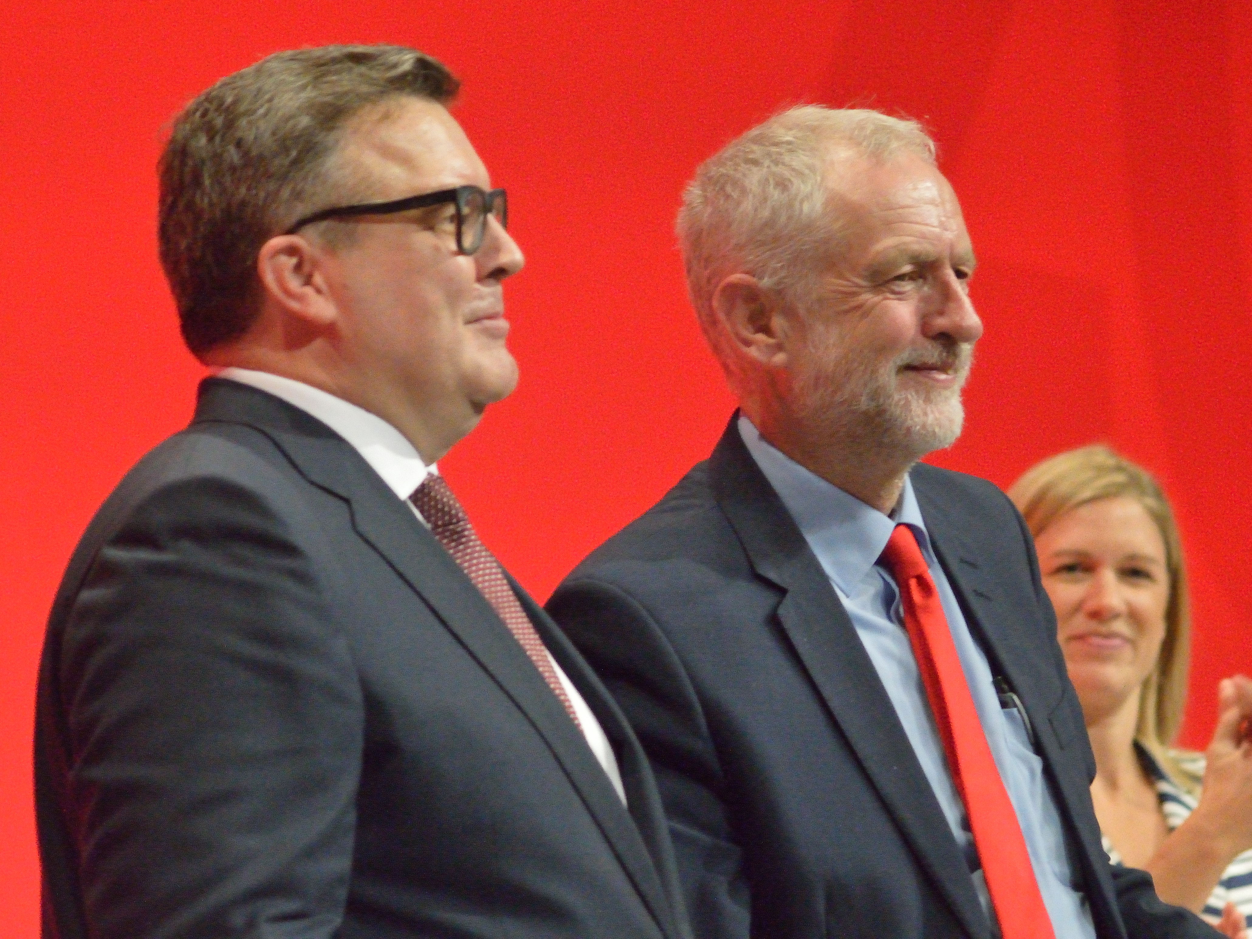 Tom Watson with Jeremy Corbyn after giving his Deputy Leader of the Labour Party speech at the 2016 Labour Party Conference in Liverpool.